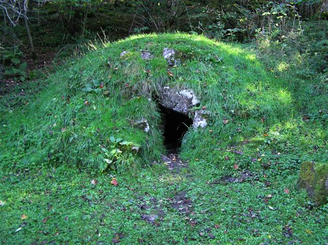 Tirkane Sweathouse Nestled in a secluded area located 2.5 miles to the North West of Maghera, is a well preserved Sweathouse. It was a type of early sauna, used in Ireland in the 18th and 19th centuies, but its origins may date back much further. It is a rectangular structure built against the side of a hill with a roof made of flat stones with a small chimney hole in one corner. The floor is paved with stone. According to 'Ancient Monuments of Ireland, Vol. 2' these Sweat Houses are the primitive fore runner for the modern Turkish bath, which are now in Germany as Irish Baths. There are only a few such sweathouses remaining in Northern Ireland.